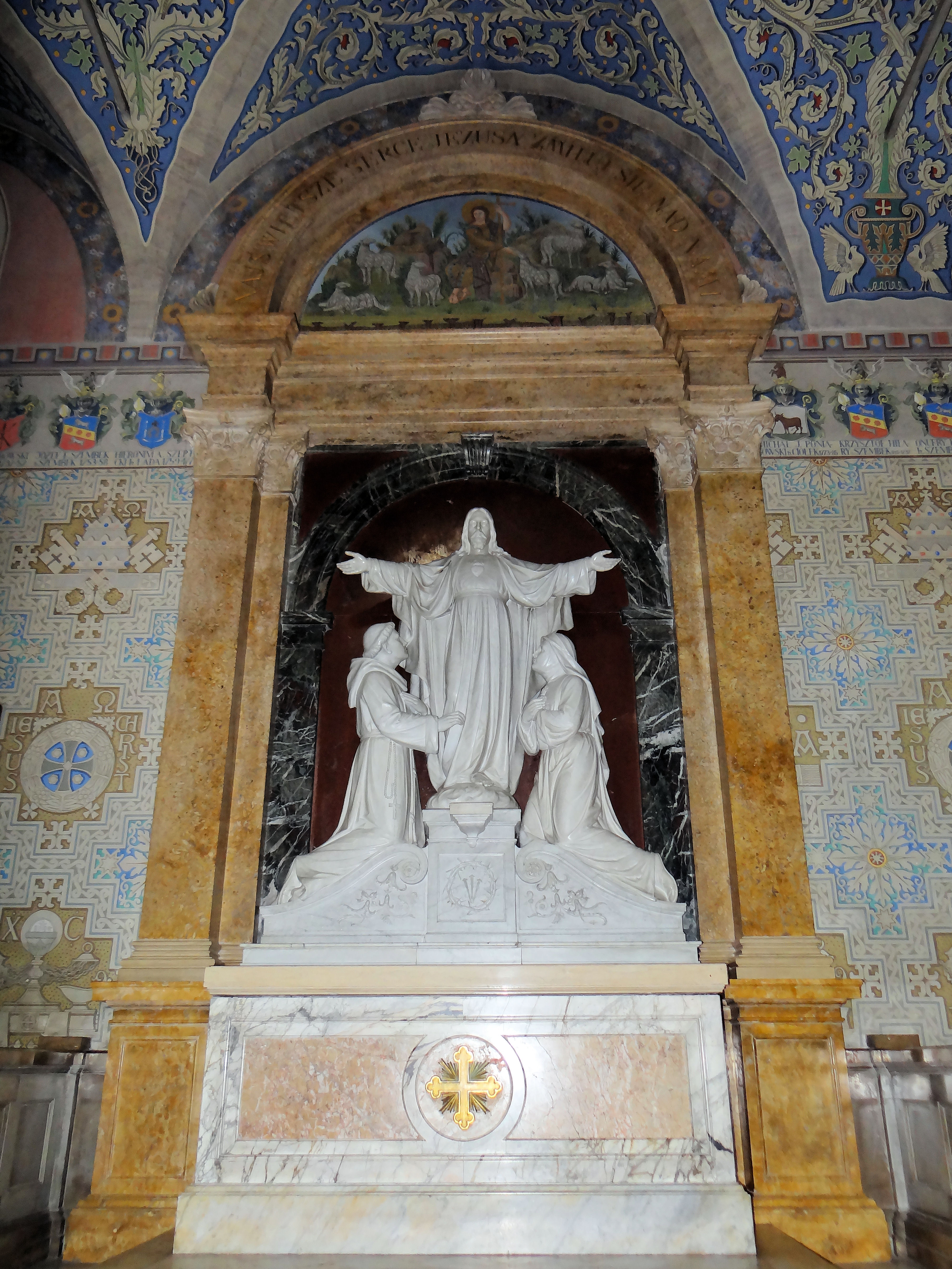 Altar of Płock Cathedral